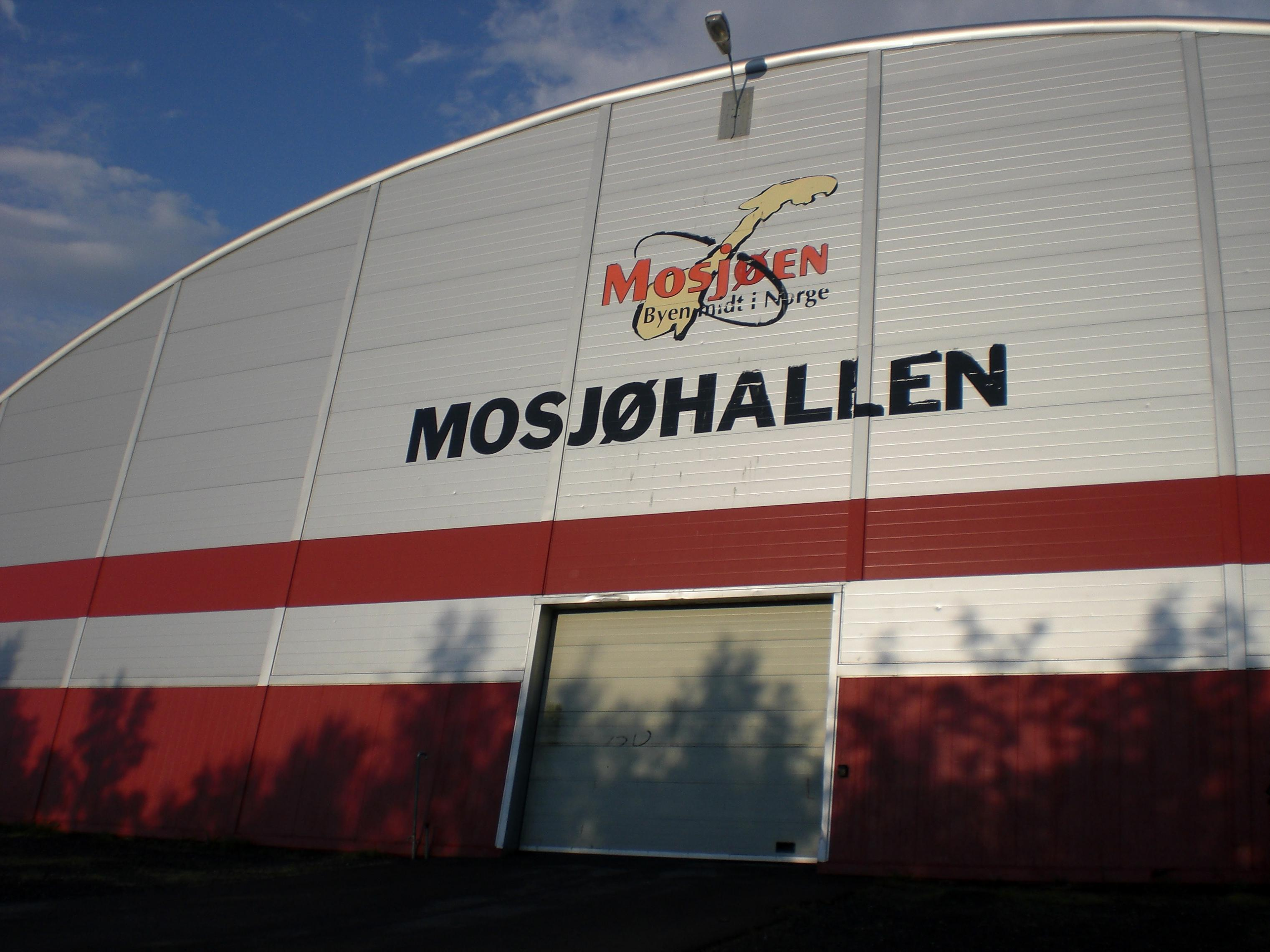 Mosjøhallen, Mosjøen in Norway.